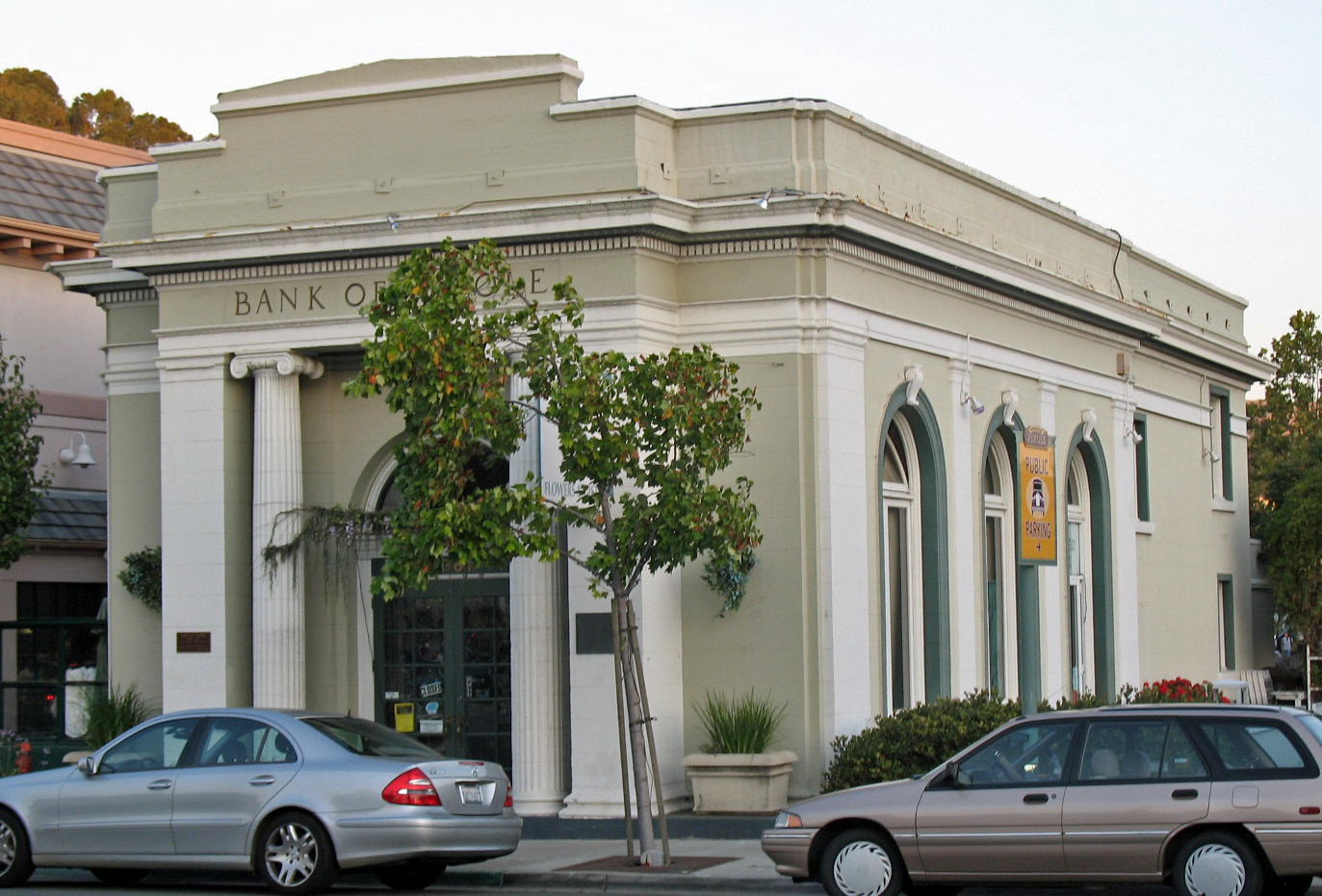 National Register of Historic Places listings in Contra Costa County, California. Bank of Pinole, 2361 San Pablo Ave., Pinole, California, USA. Photographed 2008-09-14 from the north side of San Pablo Ave. between Tennent and Fernandez Aves.